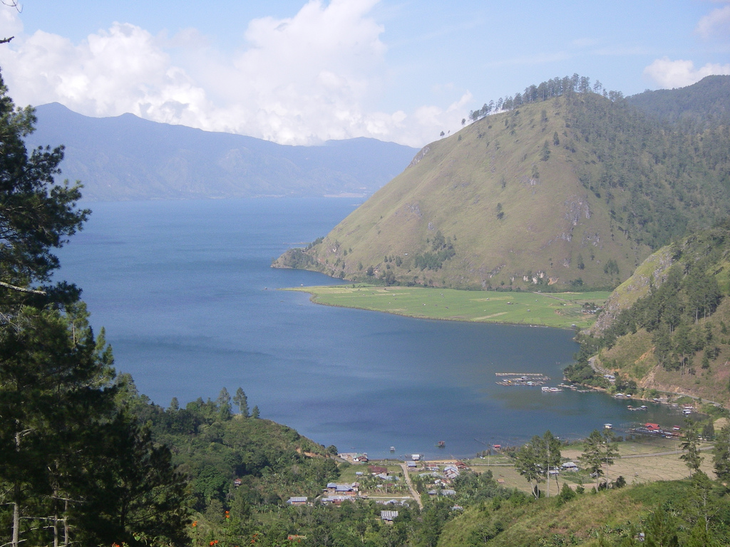 Laut Tawar Lake, Gayo Plateau, Central Aceh Regency, Aceh.